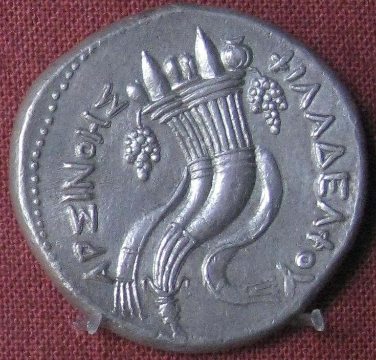 Reverse of coin of Arsinoe_II: double_cornucopia_silver